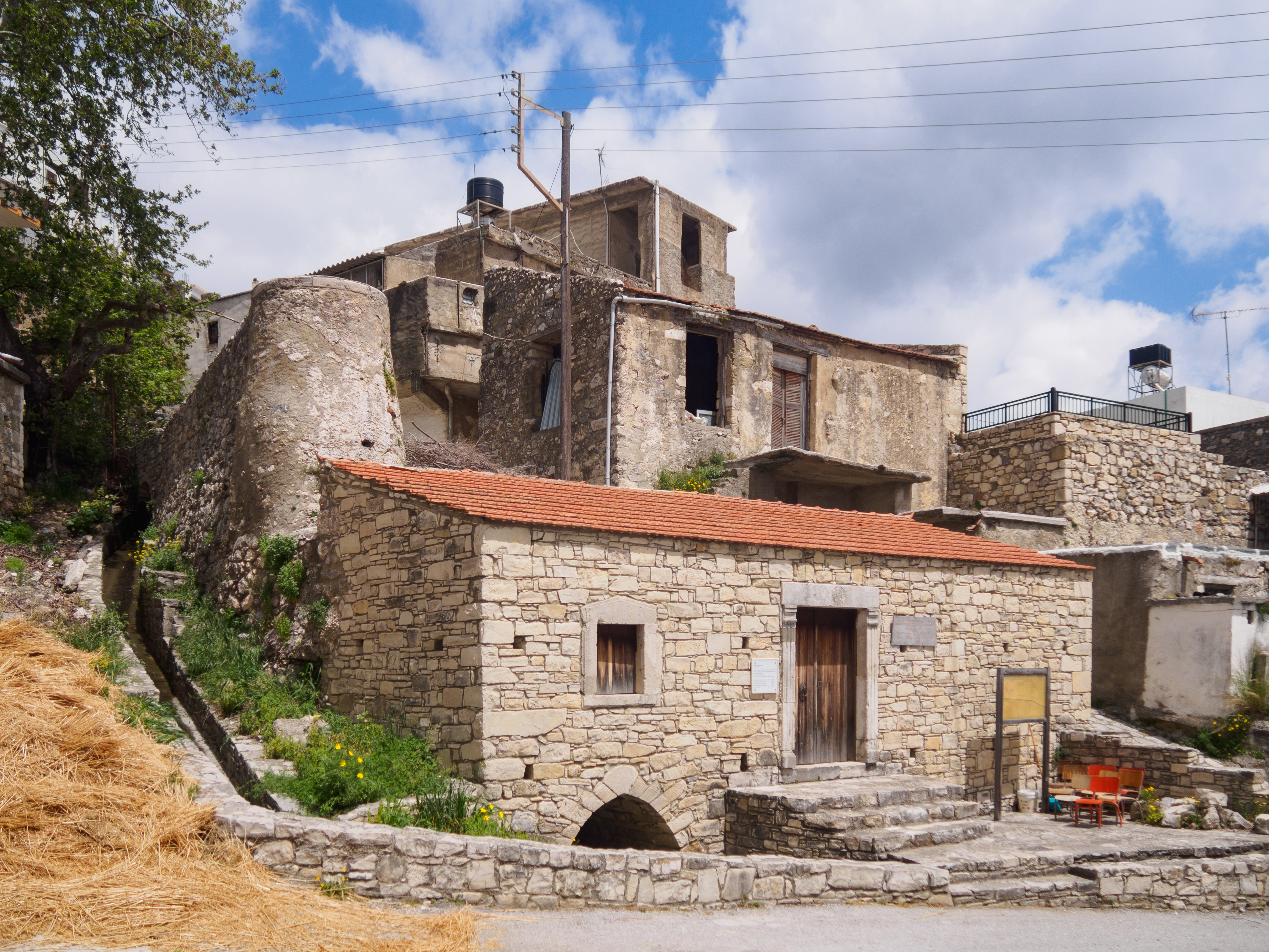 A restored late 19th century watermill in Gergeri, Crete.